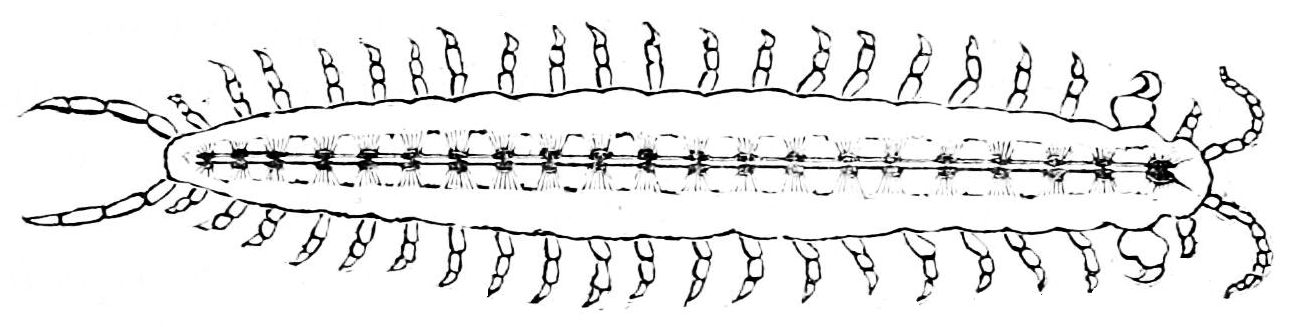 Sensorium and connected ganglia of centipede